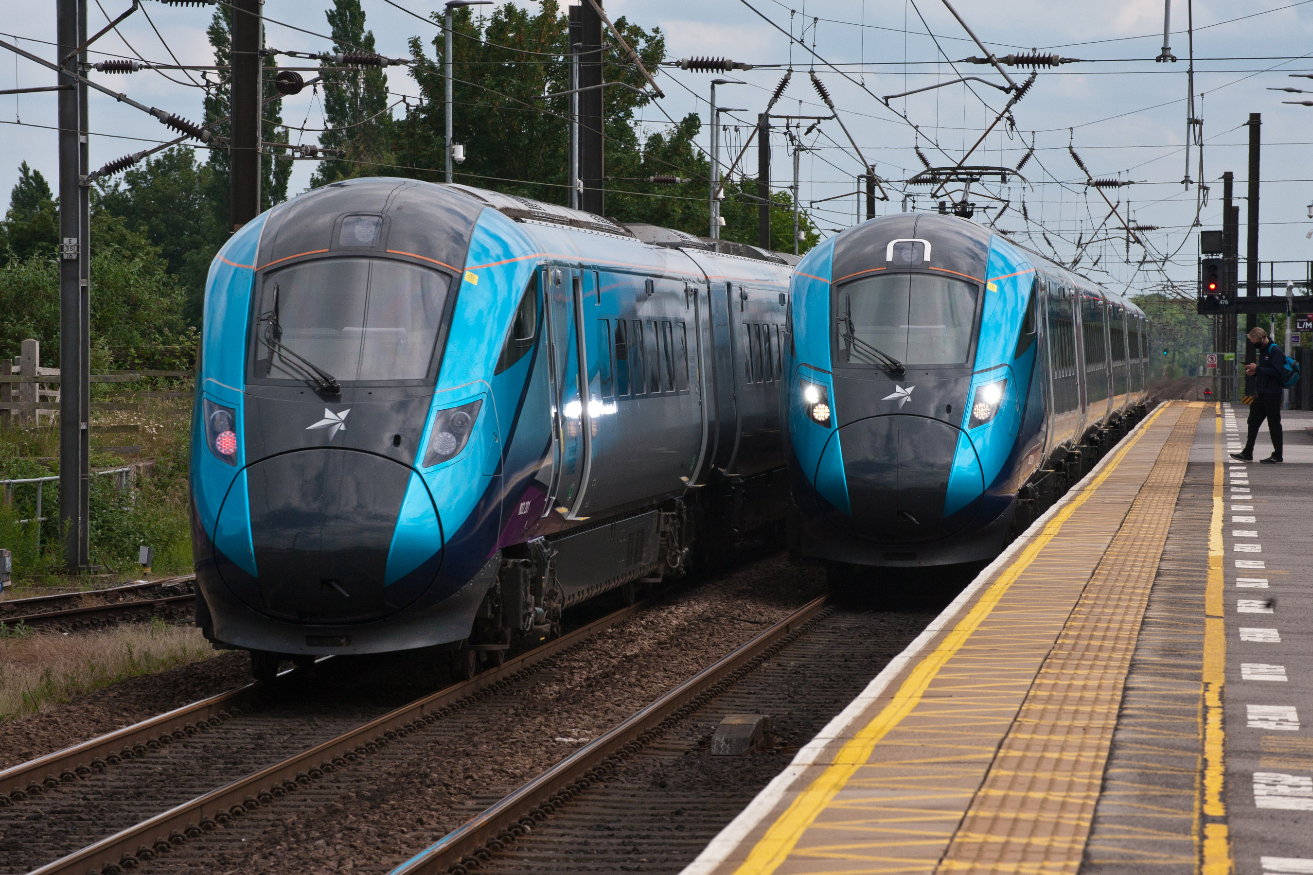 802201 and 802218 at Northallerton